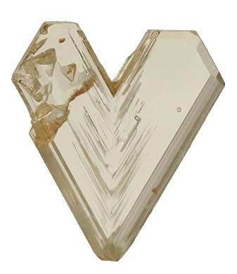 Chrysoberyl Locality: Mogok, Pyin Oo Lwin District, Mandalay Division, Burma (Myanmar) (Locality at ) Unique for Burma! The only good one I have seen and a prized oddity in the collection. I am told it is one of several from a few years ago, and the best thumbnail of the lot. 1.6 x 1.3 x 0.2 cm